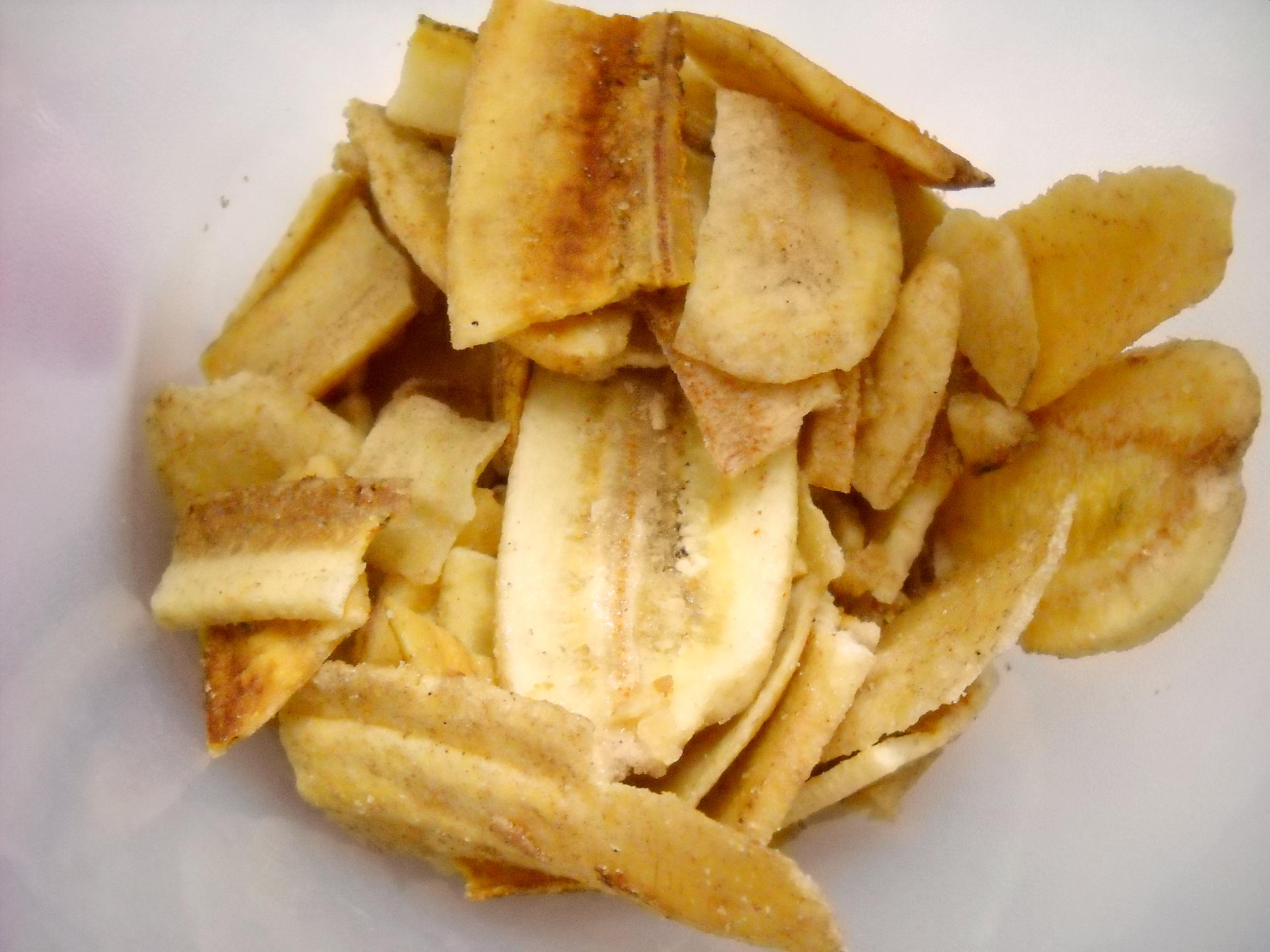 Keripik pisang Lampung, (banana chips from Lampung), Indonesia.